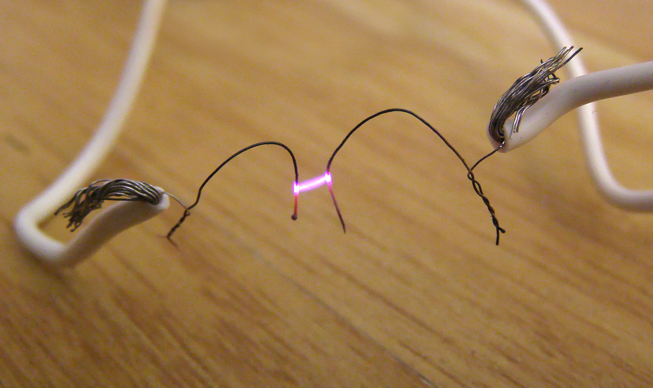 Electric arc of small voltage (600V) between multistranded wires.